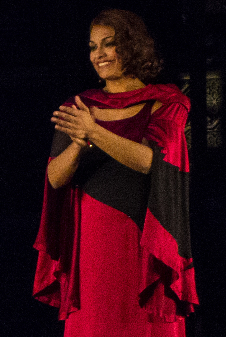 Danielle de Niese in Le nozze di Figaro (The Marriage of Figaro), Saturday matinee broadcast performance at the Metropolitan Opera House on December 20, 2014